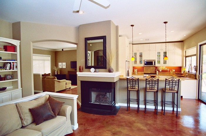 Subject: Home staged for resale - Family room, kitchen Location: North Phoenix, Arizona, USA Date: August 2006 Photographer: Andwhatsnext Credit: Work completed by Steve Price/JesmondHomes.com Original digital photograph, resized Photo copyright (c) 2006 by Nancy J Price